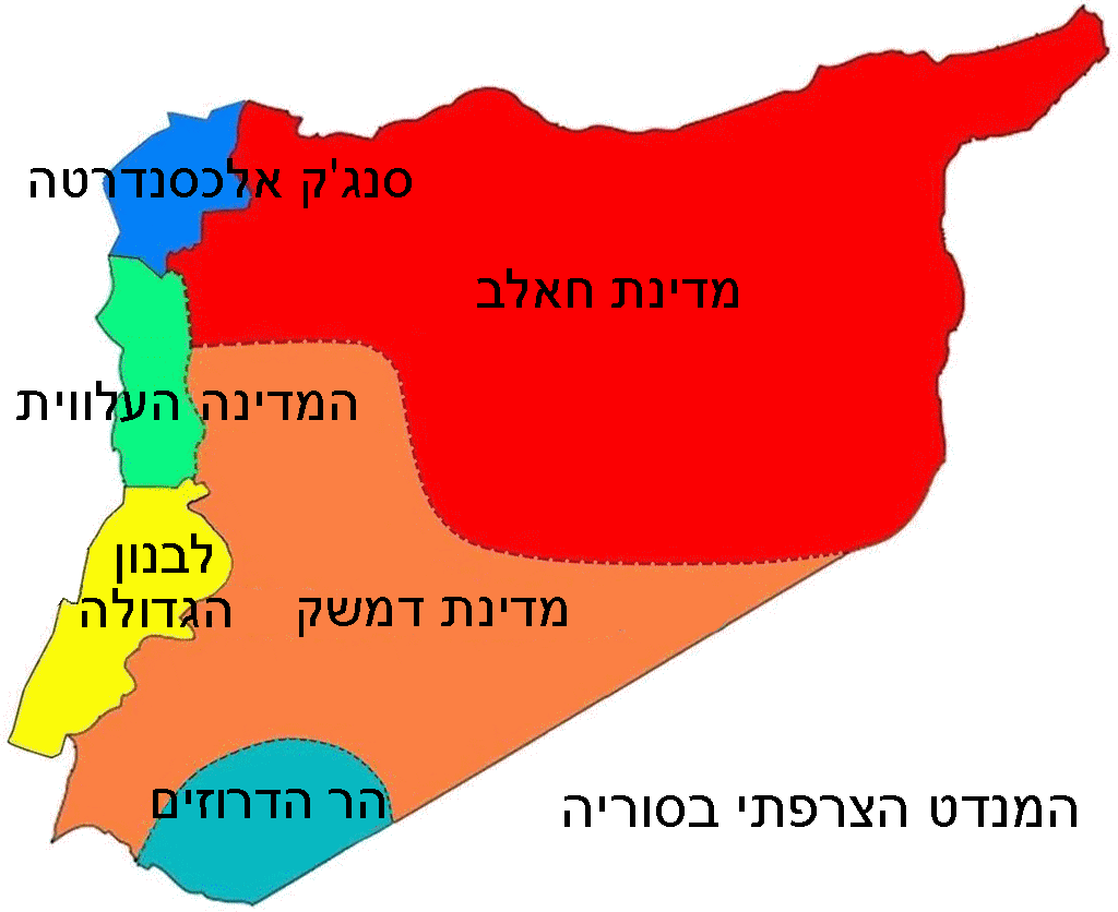 Map of the autonomous areas under the French Mandate of Syria before 1937 (specifically 1923). Based on this[1].